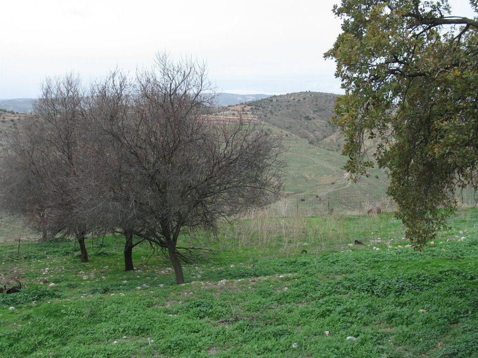 A view from Faleia